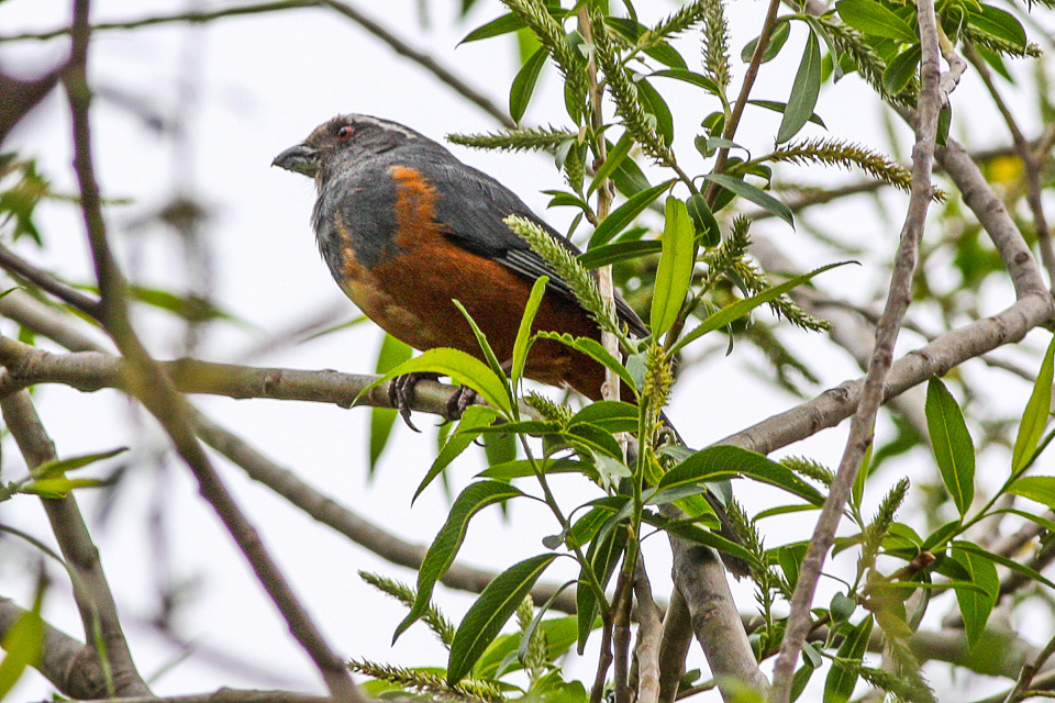 Rufous-bellied saltator between Cachi and Salta, Salta, Argentina